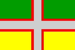 Flag of Saguenay-Lac-Saint-Jean (a.k.a. Sagamie), created on 11 june 1938 for the centenary celebrations of Saguenay ( The proportions are 2:3 (as in the provincial flag) or 1:2 (as in the Canadian flag). It is an horizontal bicolor, green over yellow, surmounted by a red-bordered grey cross extending throughout. The proportions along the hoist are approximately 7:1:3:1:7. Green represents the rich forests of the region, yellow its agriculture, grey industry and commerce, and red the vitality of the population.